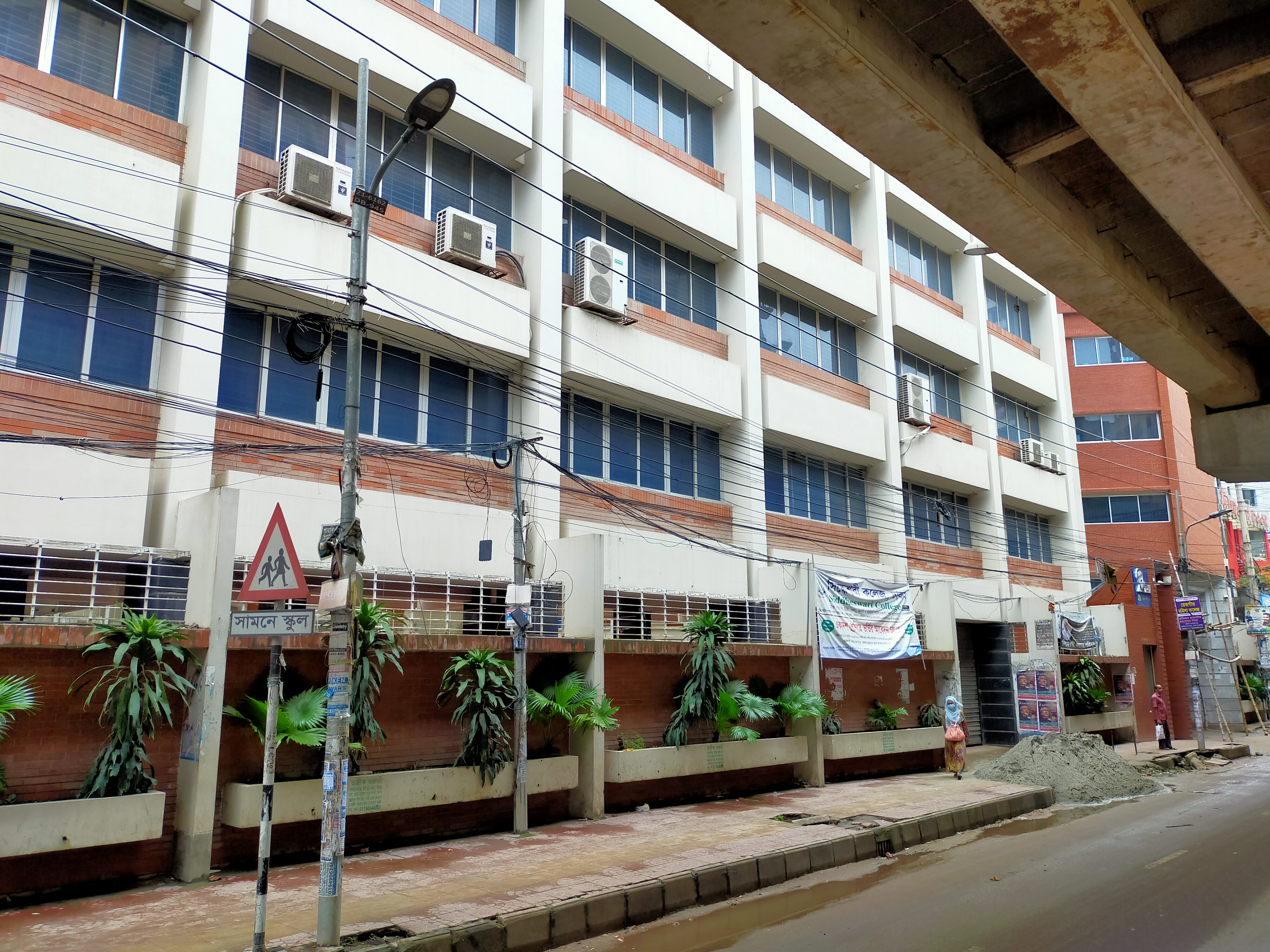 Siddheswari University College, Dhaka